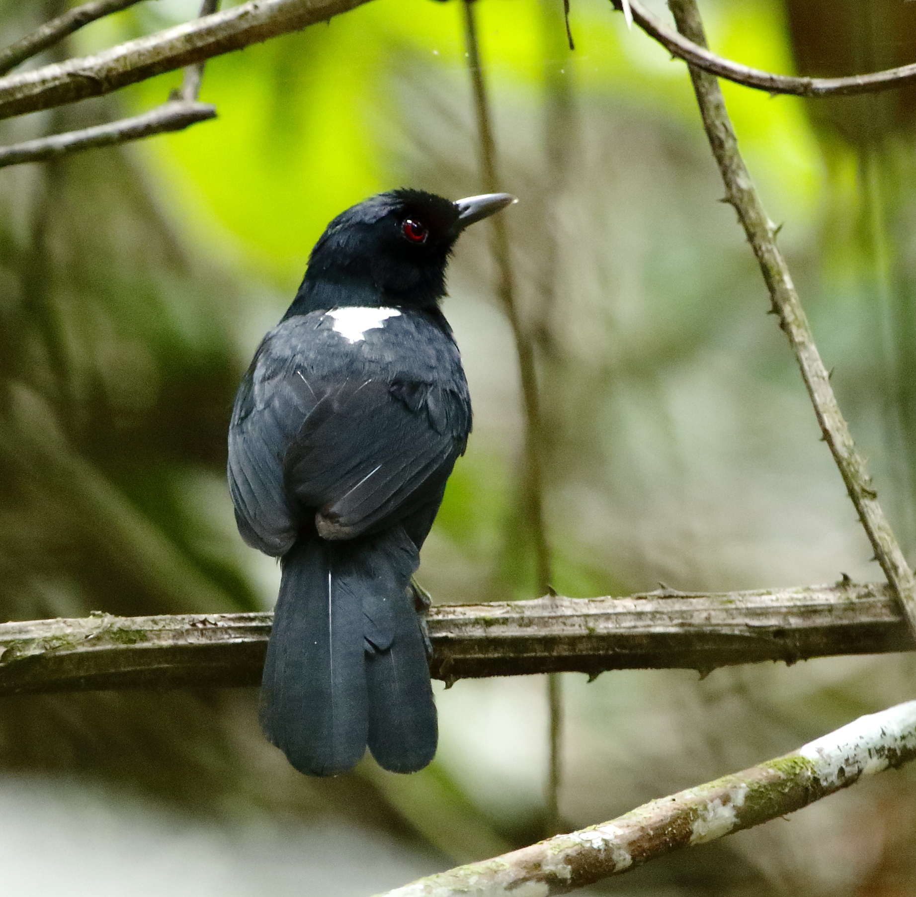 White-backed fire-eye at Carajás National Forest - Par´- Brazil